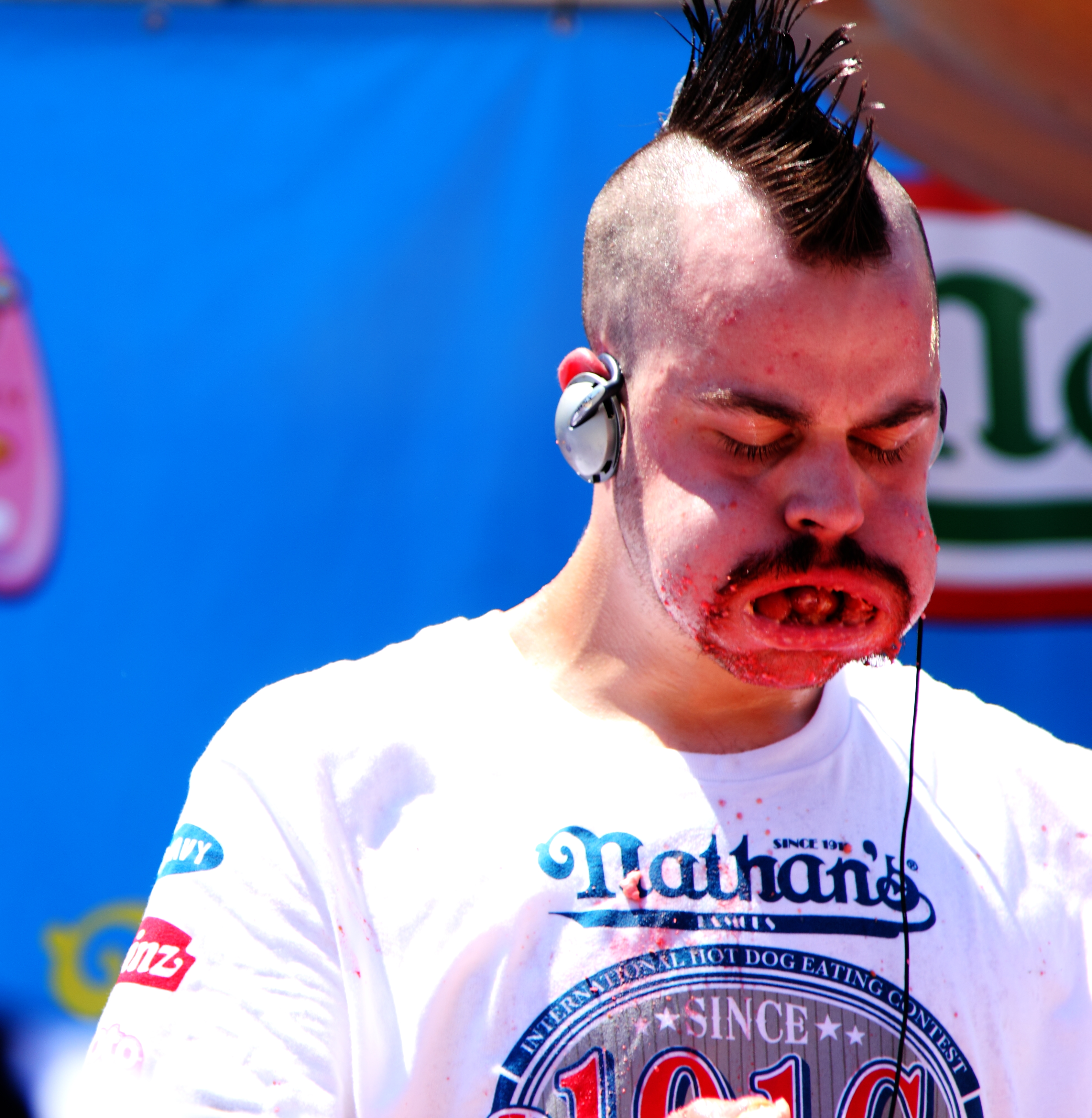 American competitive eater Patrick Bertoletti fills his mouth with franks in the 2010 Nathan's Hot Dog Eating Contest. Patrick placed third in the competition, and first on my list of all-time grossest photos I've ever taken. Congratulations, Patrick!